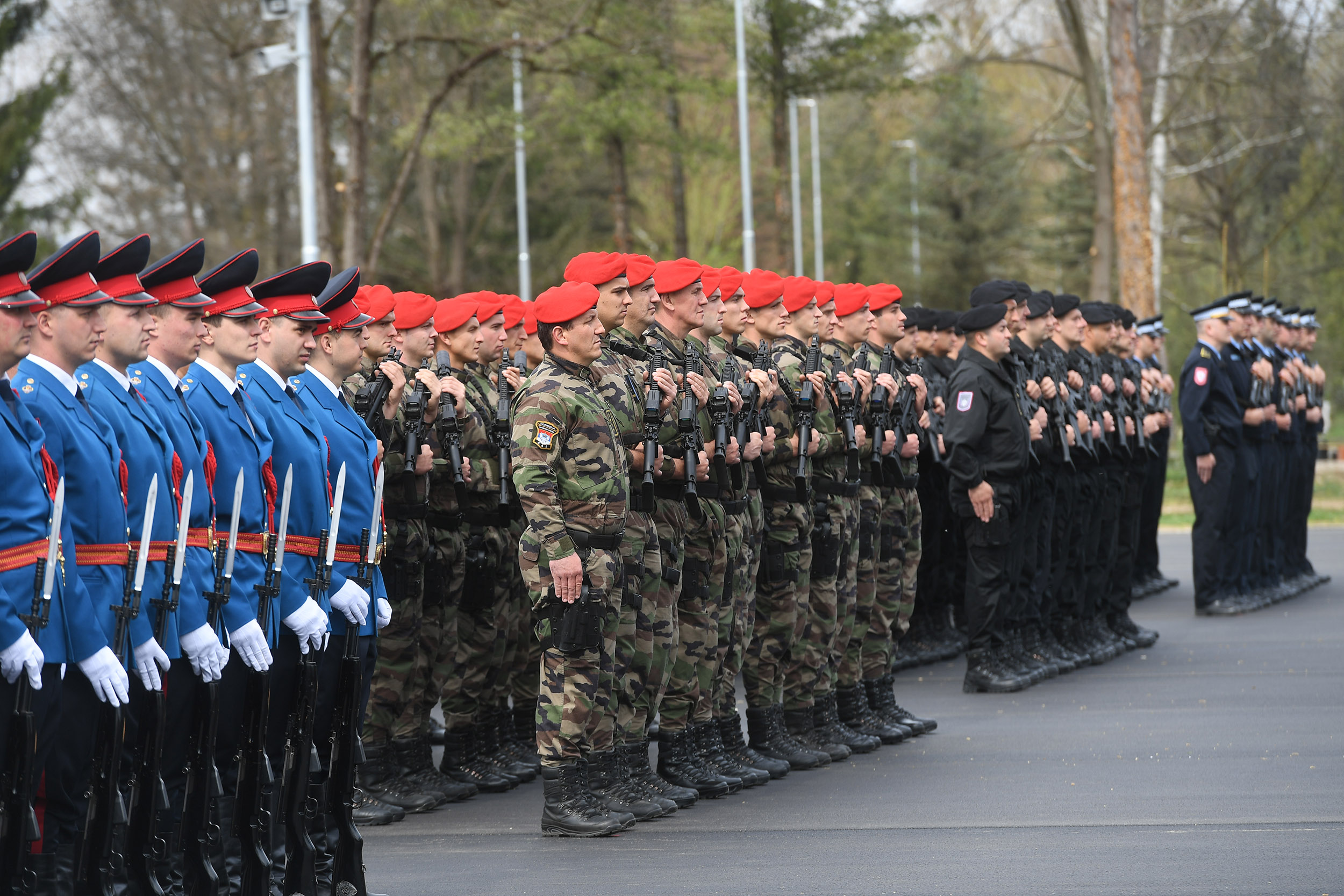 Members of the Ministry of Interior of Republika Srpska in formations during celebration of Police Day 2019 in Training Center of the Ministry of Interior of Republika Srpska in Zalužani. From closest to the farest units are Honour Unit, Special Anti-Terrorist Unit, Support Unit and Special police forces.